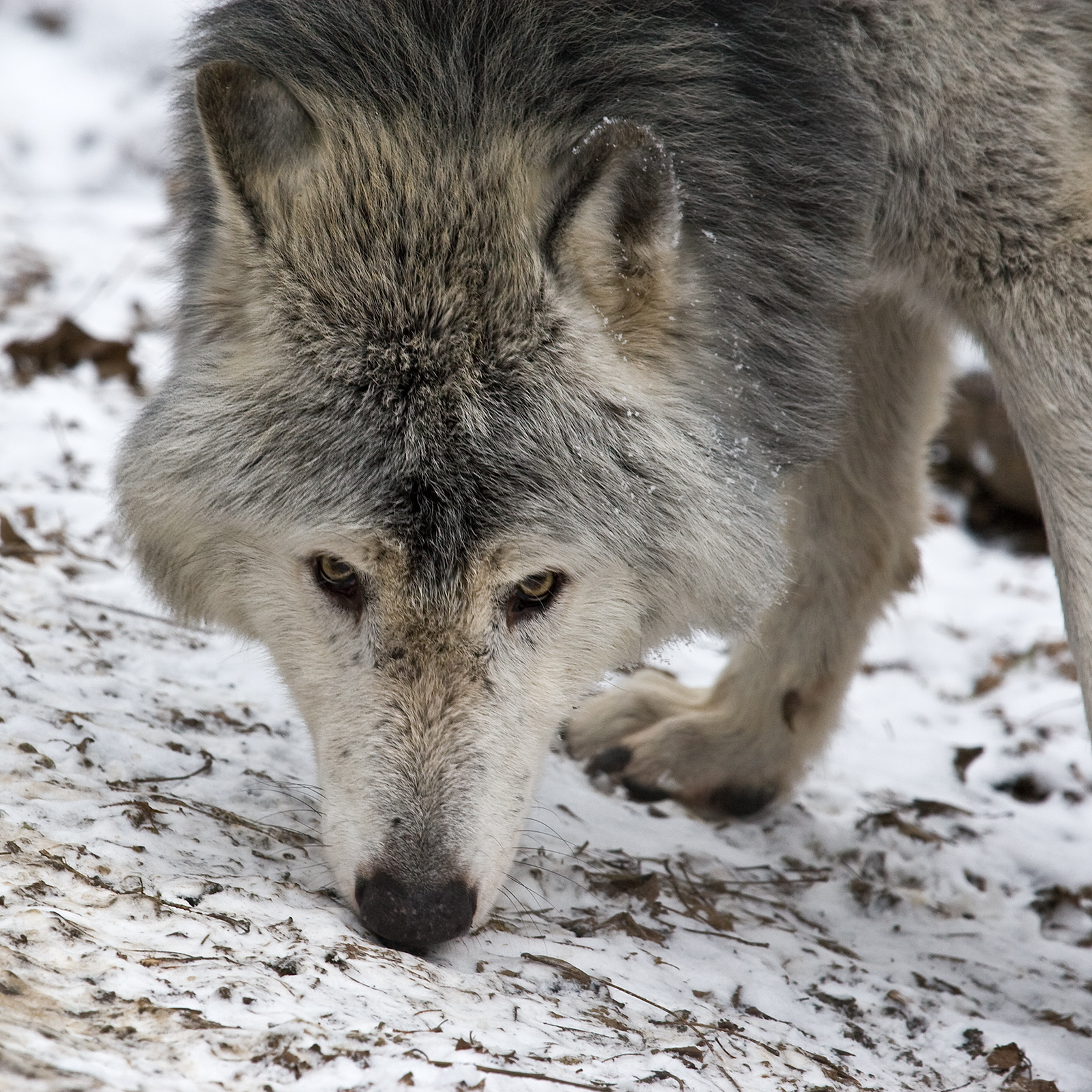 Gray "timber wolf", picture taken in Zoo Schönbrunn, Vienna, Austria.